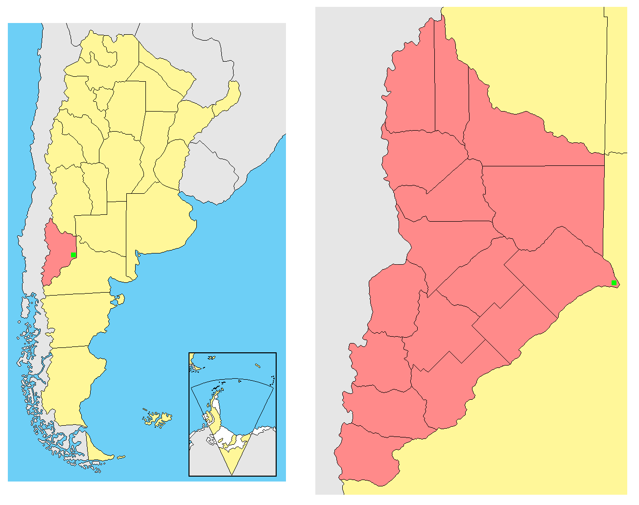 Location of Neuquen City in Argentina.